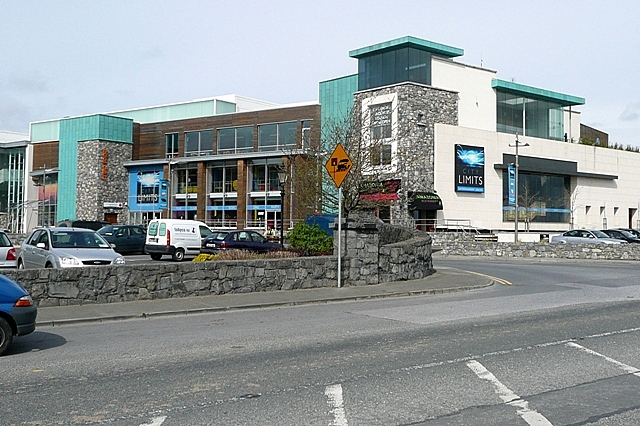 City Limits, Oranmore A multi-functional entertainment centre at Oranmore on the outskirts of Galway. See their website here